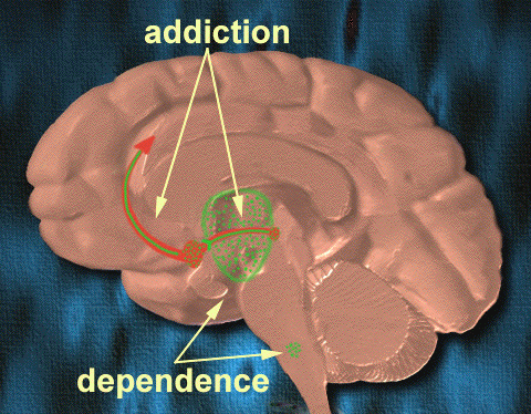 Source: The National Institute on Drug Abuse, part of the National Institutes of Health (NIH), which is part of the U.S. Department of Health and Human Services. Image taken from Teaching Packets: The Neurobiology of Drug Addiction